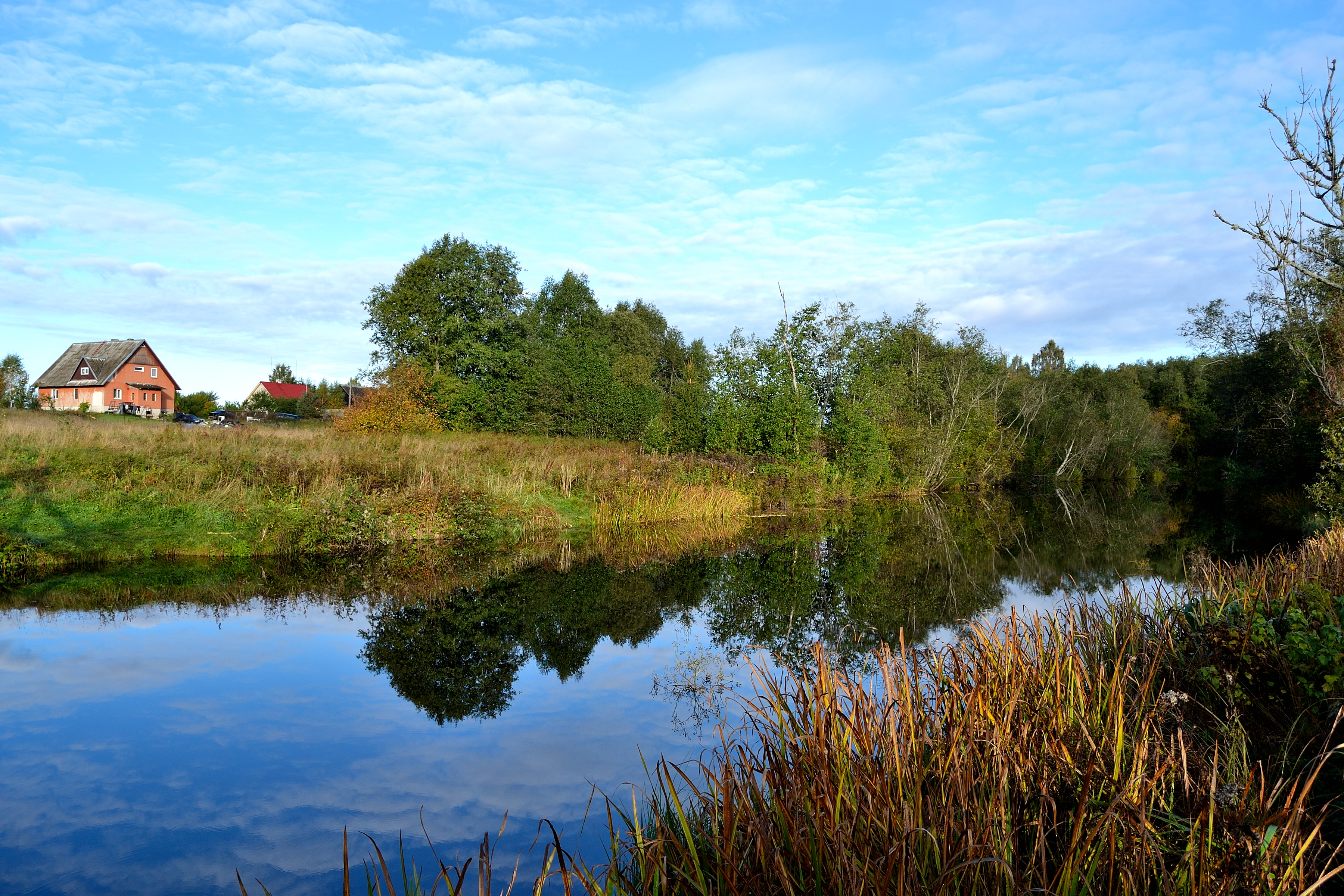 Keila river by the Lohu hill forts